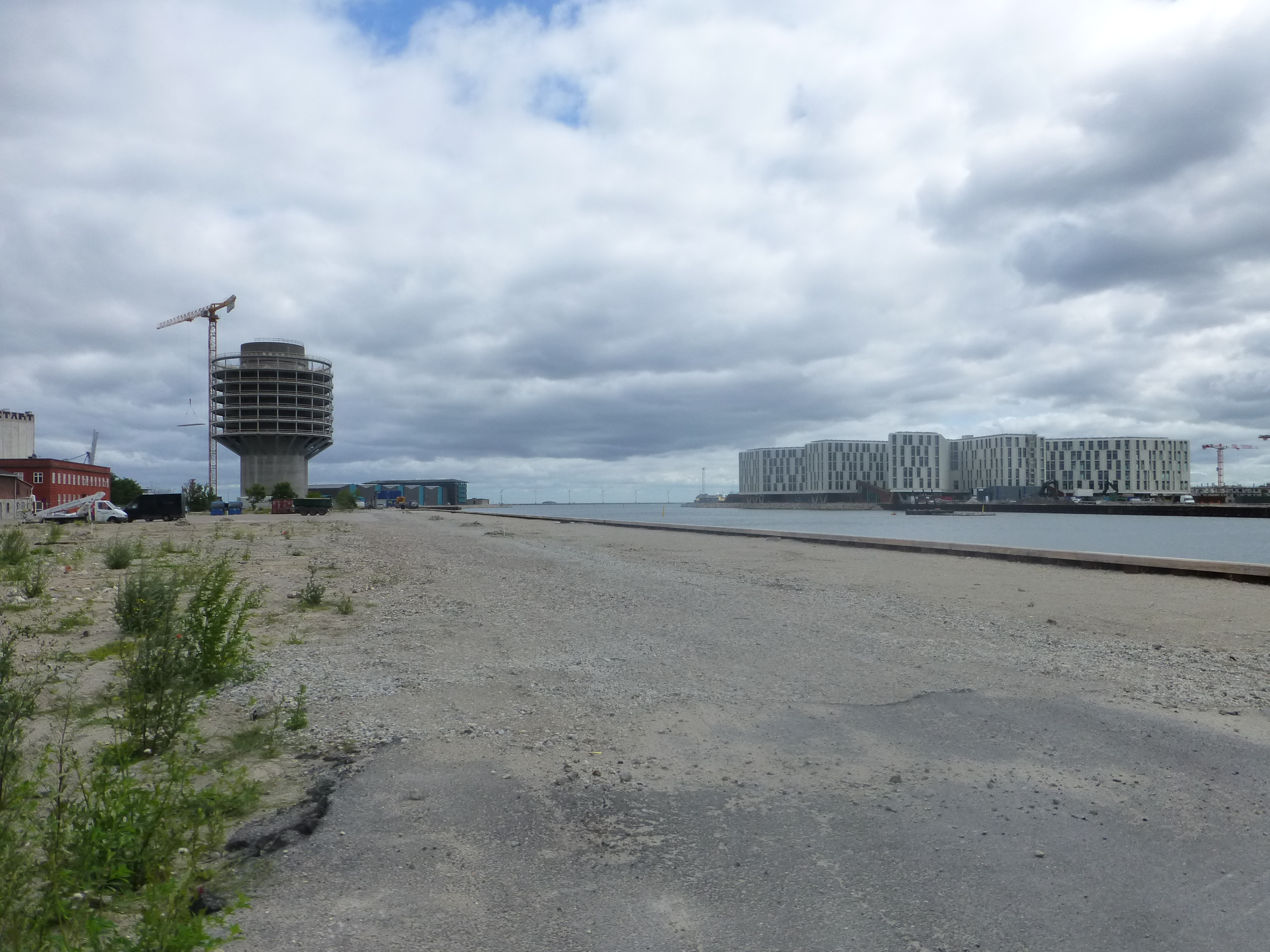 The wharf Sandkaj in Nordhavn in Copenhagen.